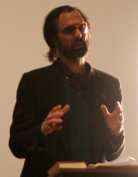 David Berman speaking at Watkins Institute of Art and Design, Nashville, Tennessee.